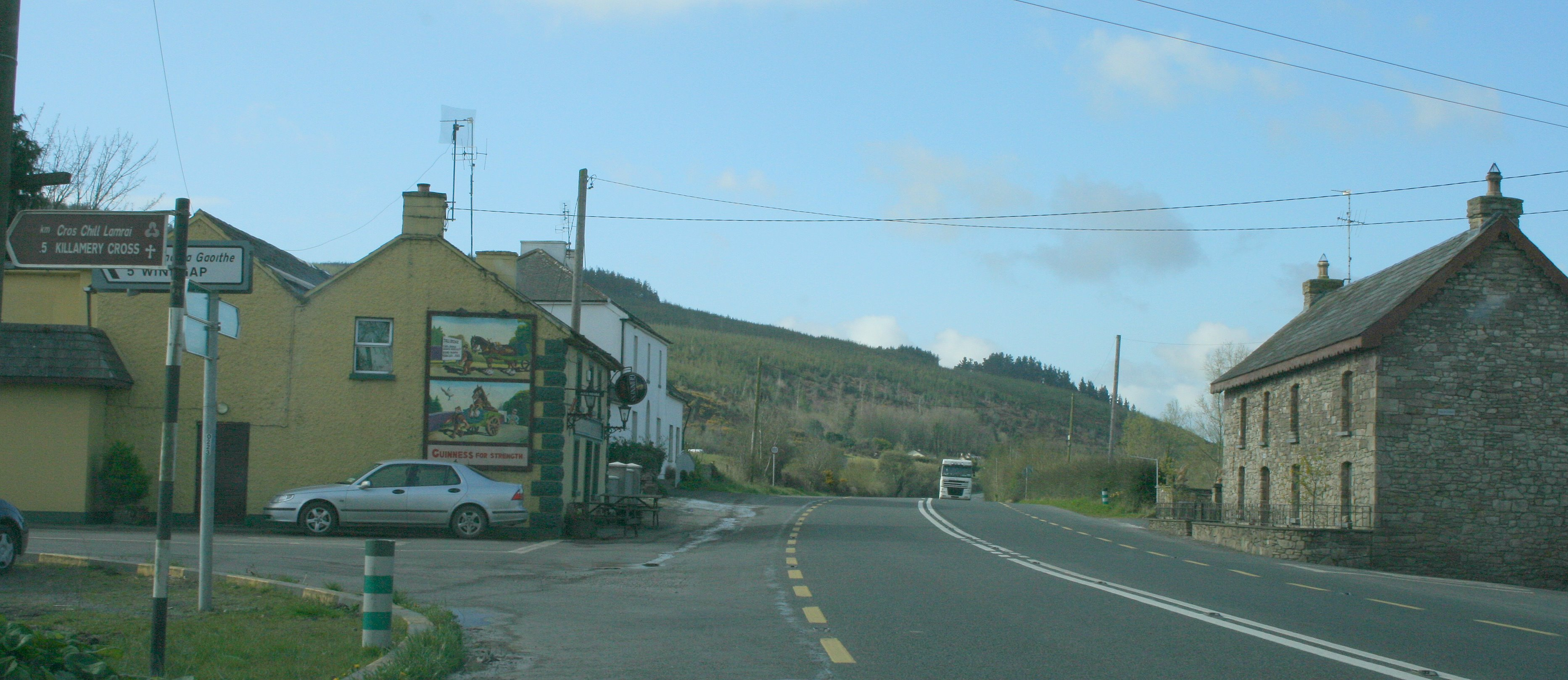 Killamery, County Kilkenny, Ireland on the N76 national route.